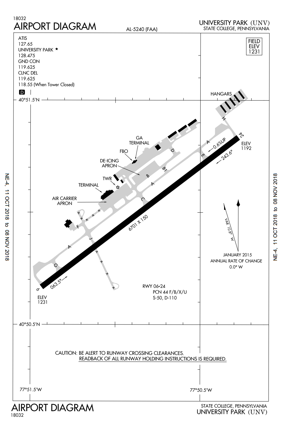 Airport Diagram of the University Park Airport, State College, Pennsylvania, USA